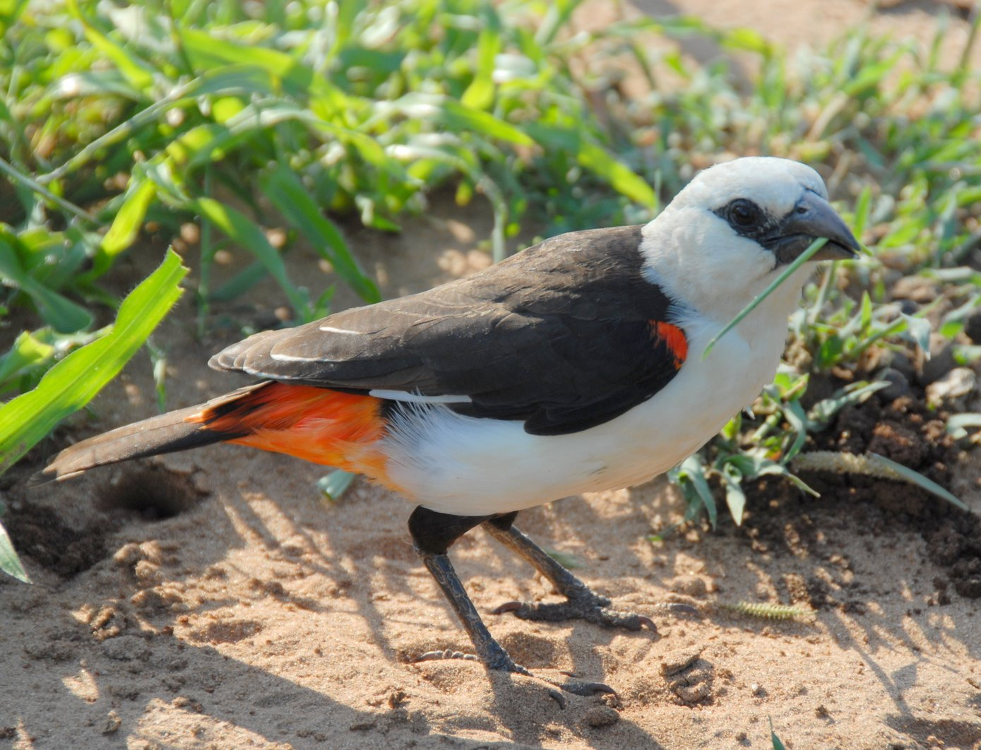 A White-headed Buffalo Weaver in Serengeti National Park, Tanzania.